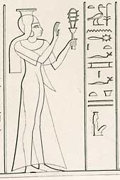 Drawing of a relief depicting princess Henuttawy, daughter of pharaoh Ramesses II and queen Nefertari. From Abu Simbel Great Temple (Room F, eastern wall, left side), 19th Dynasty, New Kingdom.